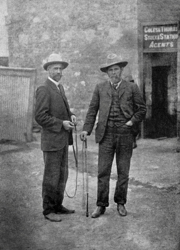 Sidney Kidman (1857 -1935) Sidney Kidman (left) and J. R. Chisholm photographed holding stock whips.